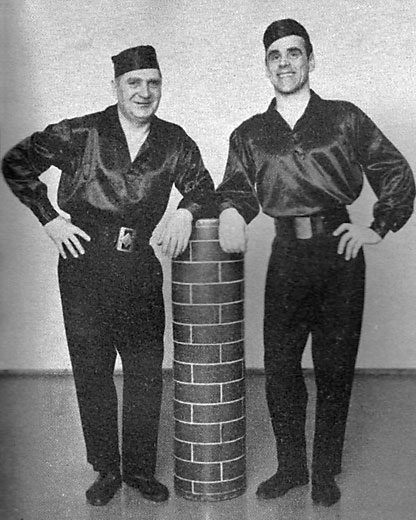 Finnish acrobat group Nokipojat. Left Matti Kaksonen (1914–1993), right Viljo Korpela (1925–2005). Picture taken 1960 at Peacock variety theatre in Linnanmäki amusement park, Helsinki.